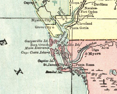 A 1901 map shoeing details of Charlotte Harbor by George F. Cram